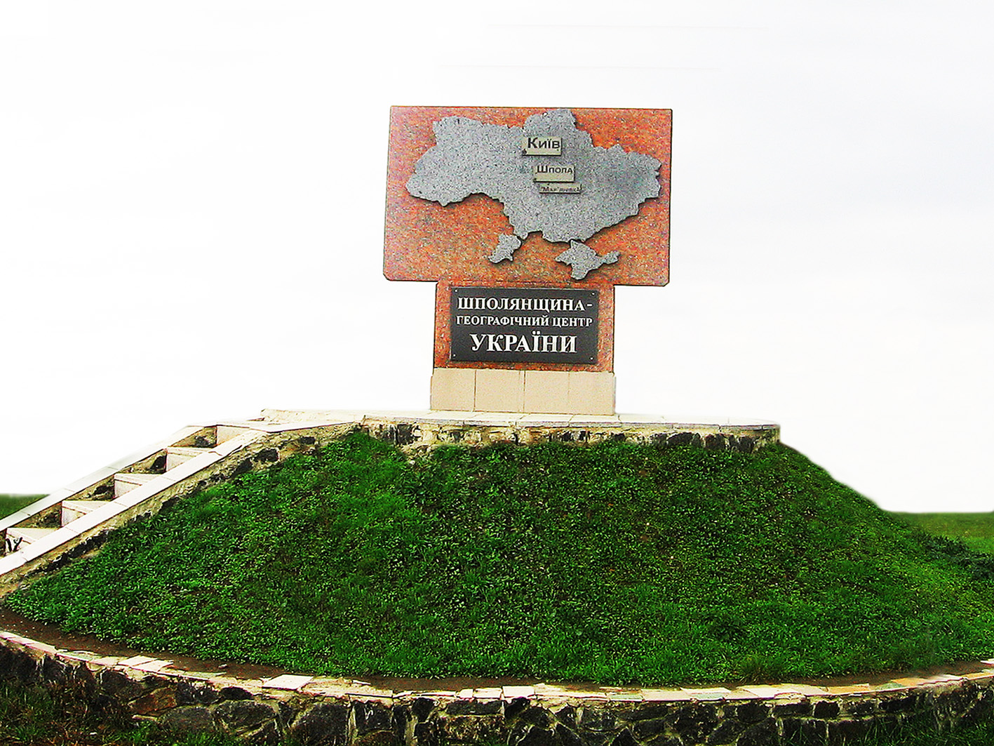 The geographical center of Ukraine